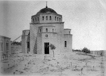 Ascension Church. Russian Monastery of Ascension on the Mount of Olives. Jerusalem.